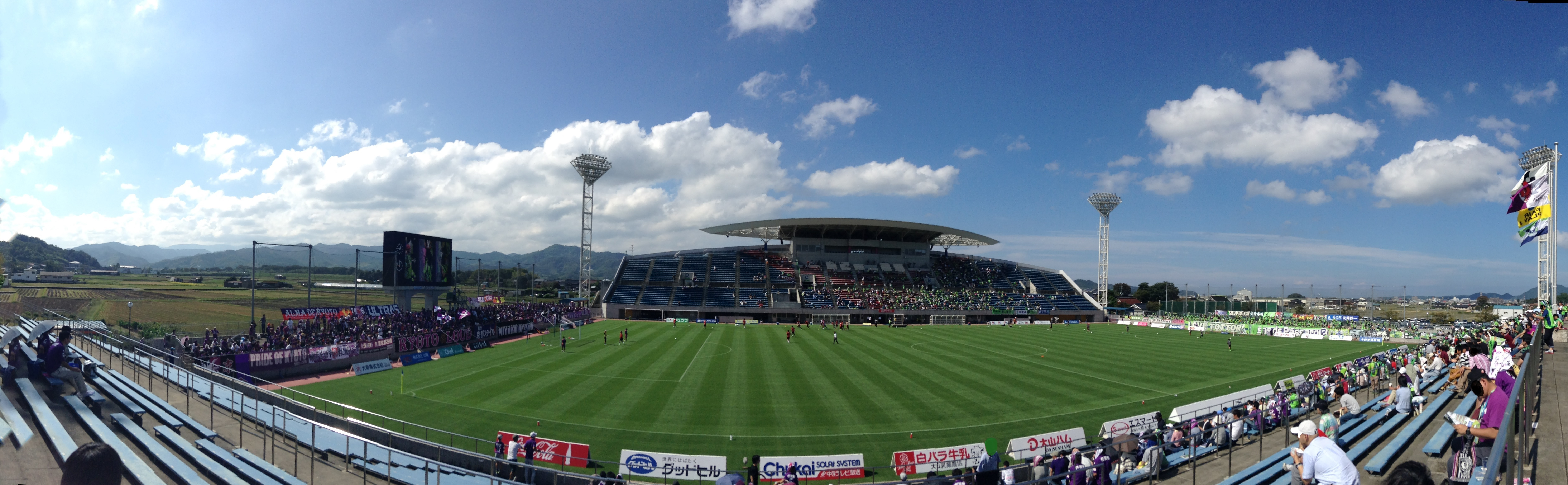 The panoramic photograph of Tottori Bird Stadium (a.k.a Tottori Bank Bird Stadium). J. League Division 2 ,Gainare Tottori vs Kyoto Sanga F.C., 6 October, 2013（After correction）